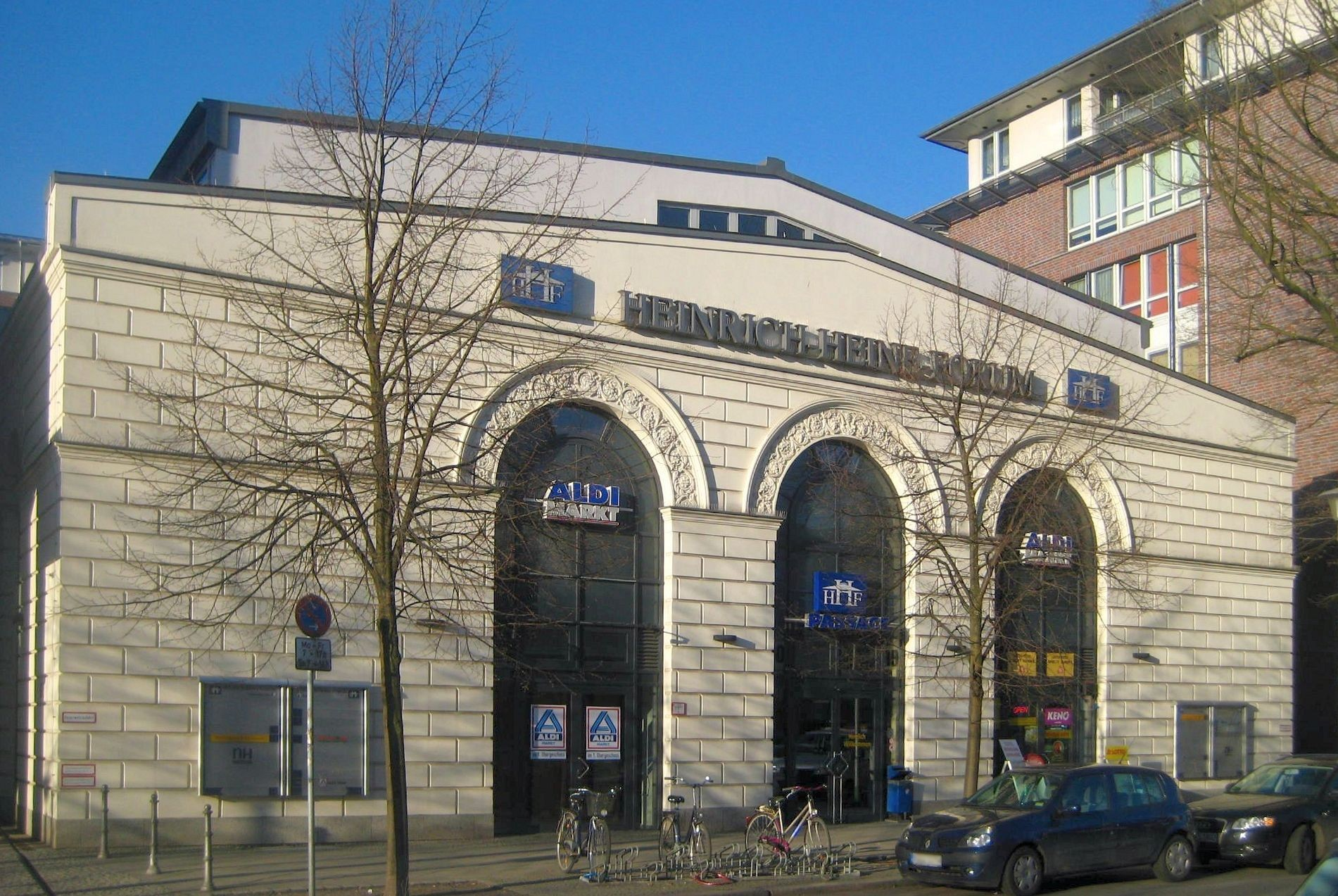 Former military exercise hall of Kaiser-Franz-Grenadier-Garde-Regiment No. 2 at Heinrich-Heine-Platz No. 9-12 in Berlin-Mitte. It was built from 1829 to 1830, most likely to a design by Karl Hampel and Ferdinand Fleischinger. It is now part of the shopping center "Heinrich-Heine-Forum". The building has been designated as a historic landmark.